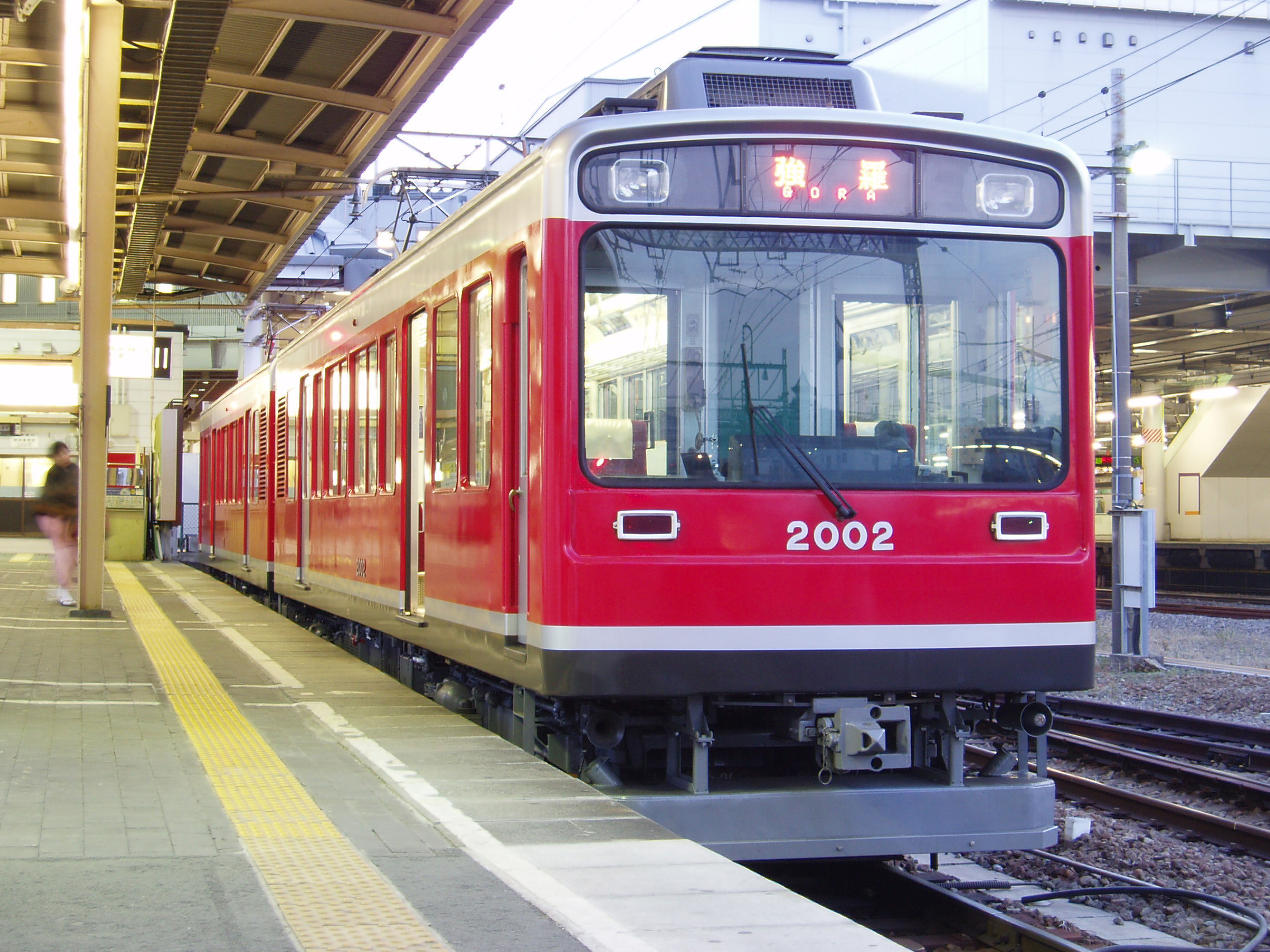 Hakone tozan Railway type 2000